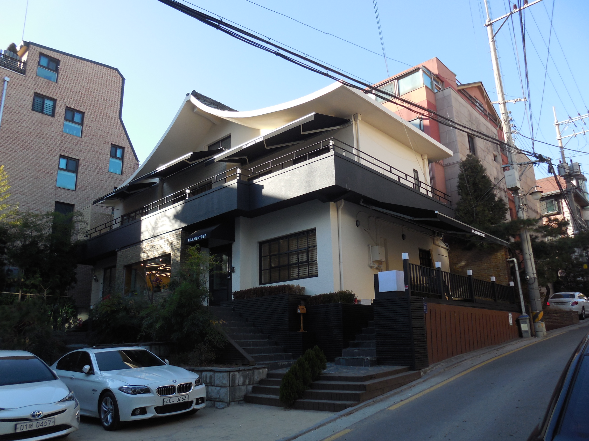 Building of Cafe Testa Rossa